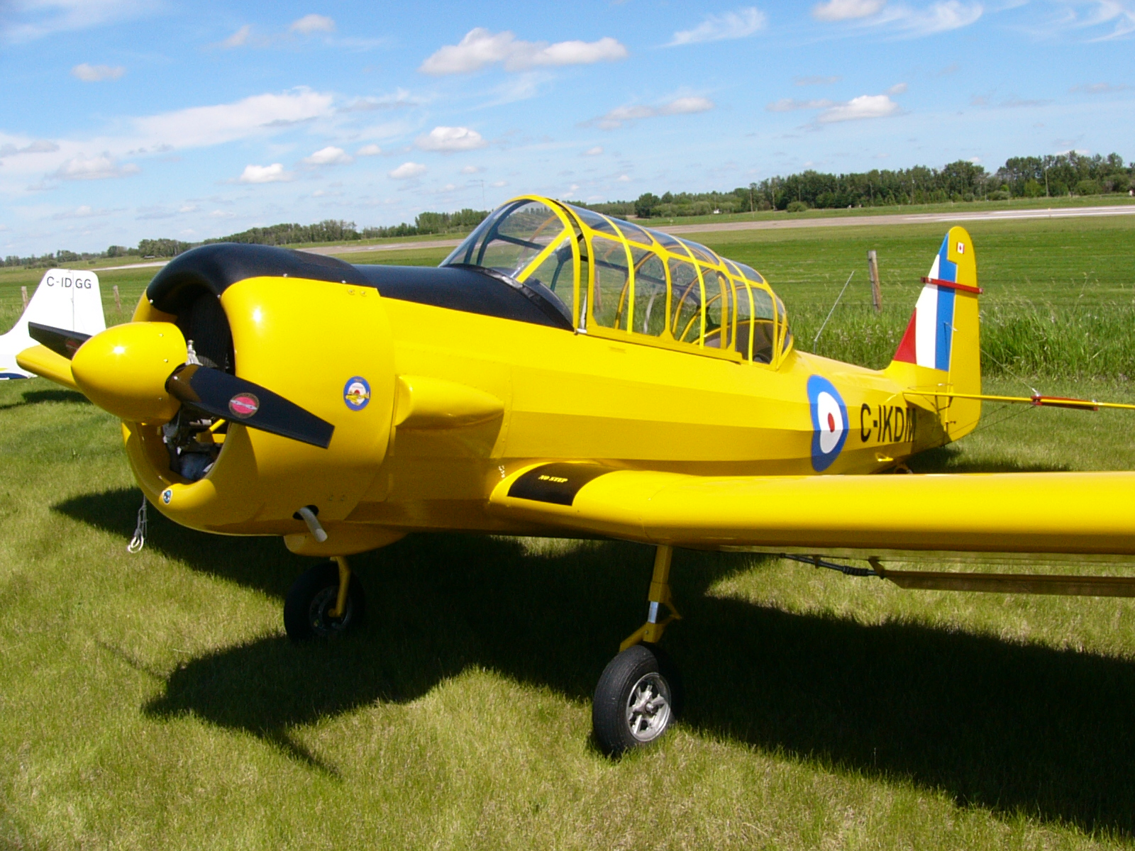 Blue Yonder EZ Harvard at the COPA Convention in Wetaskiwin Alberta 2005.